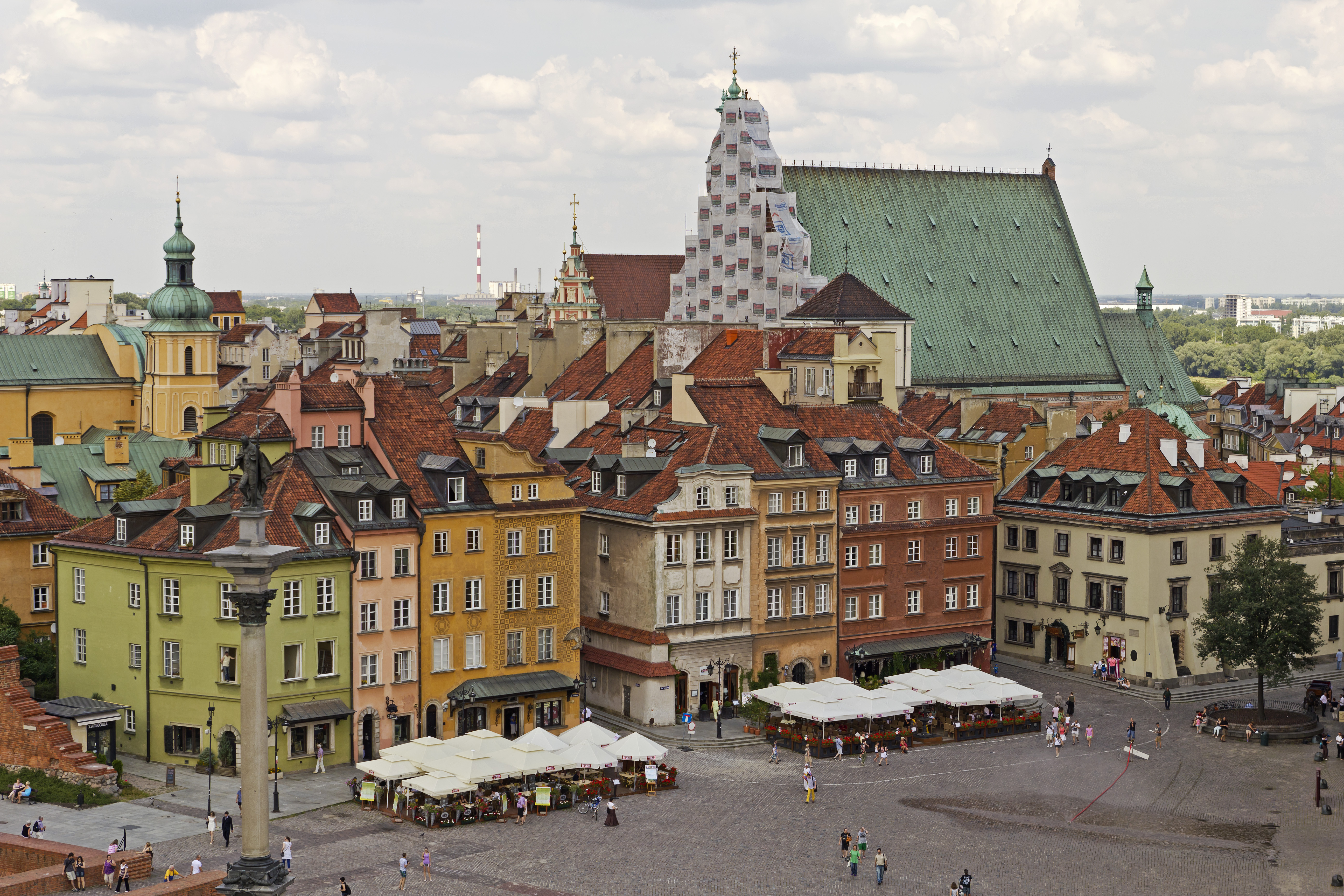 View from the St. Anne Church tower at Castle Square in the Old Town (Stare Miasto) in Warsaw (Poland)